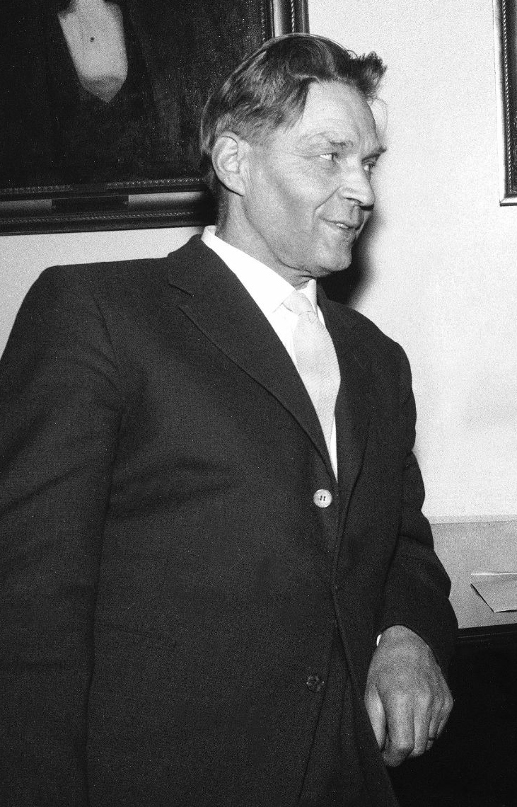 Photograph of the Finnish politician and unionist Yrjö Rantala (1904–1972).